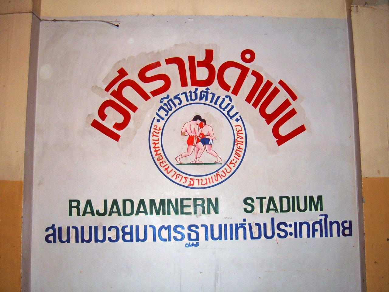 Logo of Rajadamnern Stadium, a Muay Thai venue, on a wall of the stadium in Bangkok